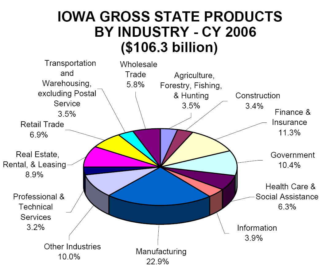 Iowa State Gross Products by Industy, 2006.